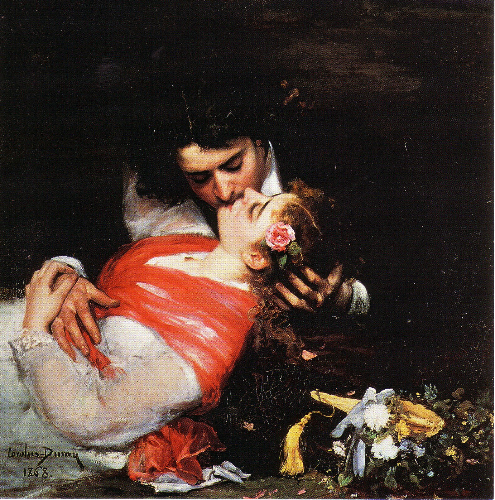 Self-portrait of French painter Carolus-Duran with his wife as newlyweds.